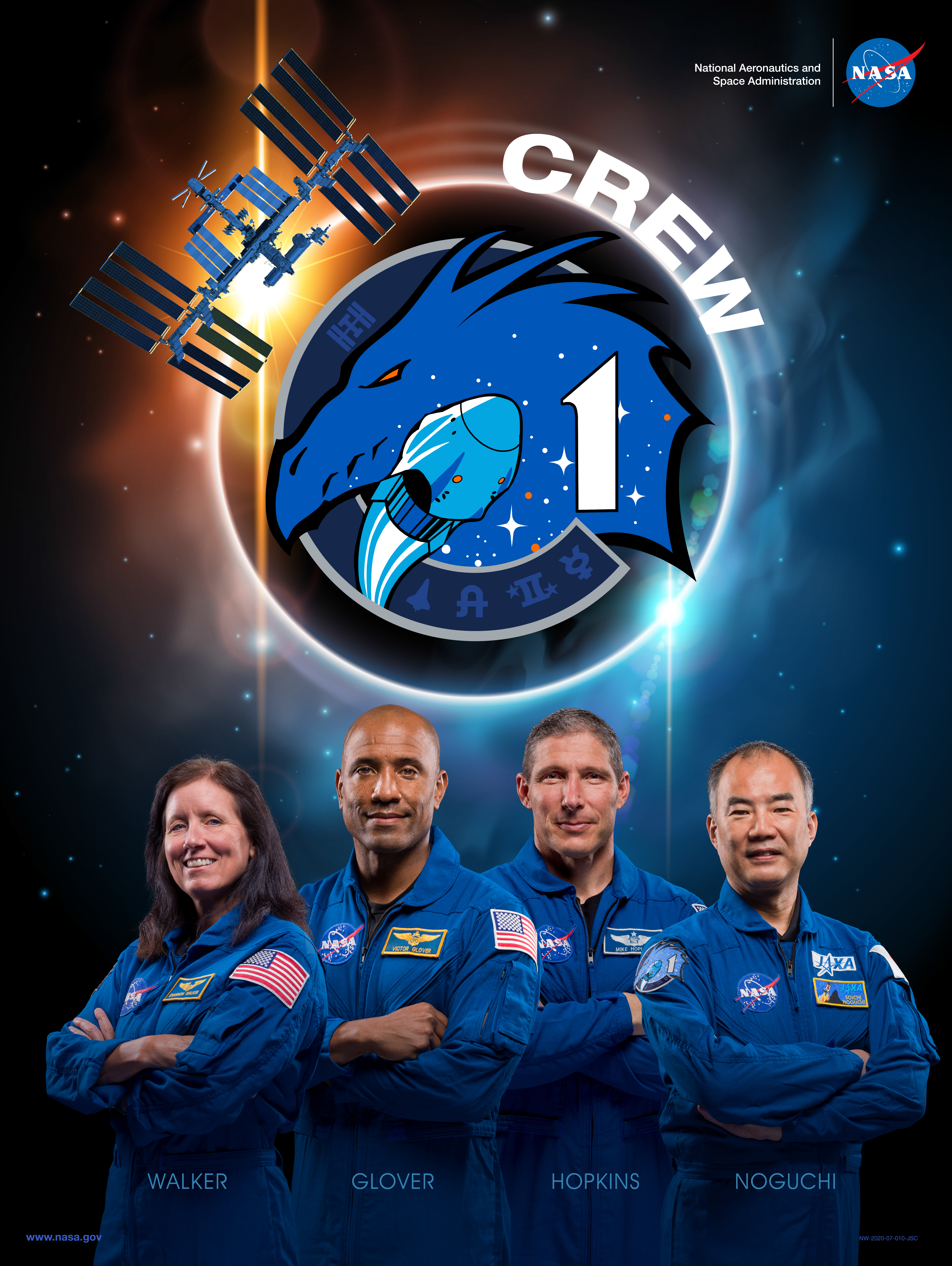 SpaceX Crew-1 Commercial Crew Poster